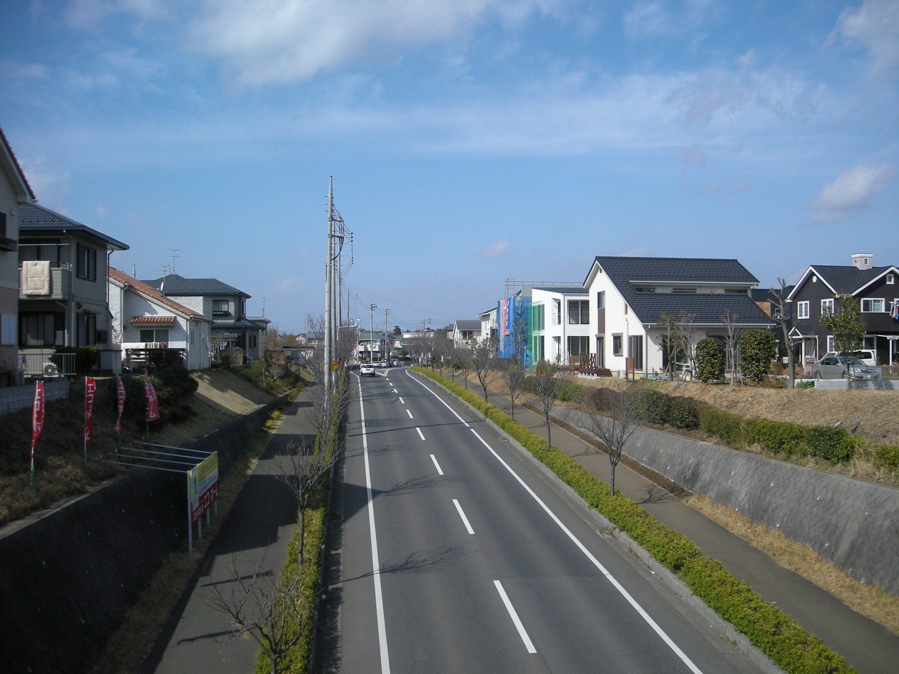 The Ibaraki Prefectural Road Route 34 in Ryugasaki City